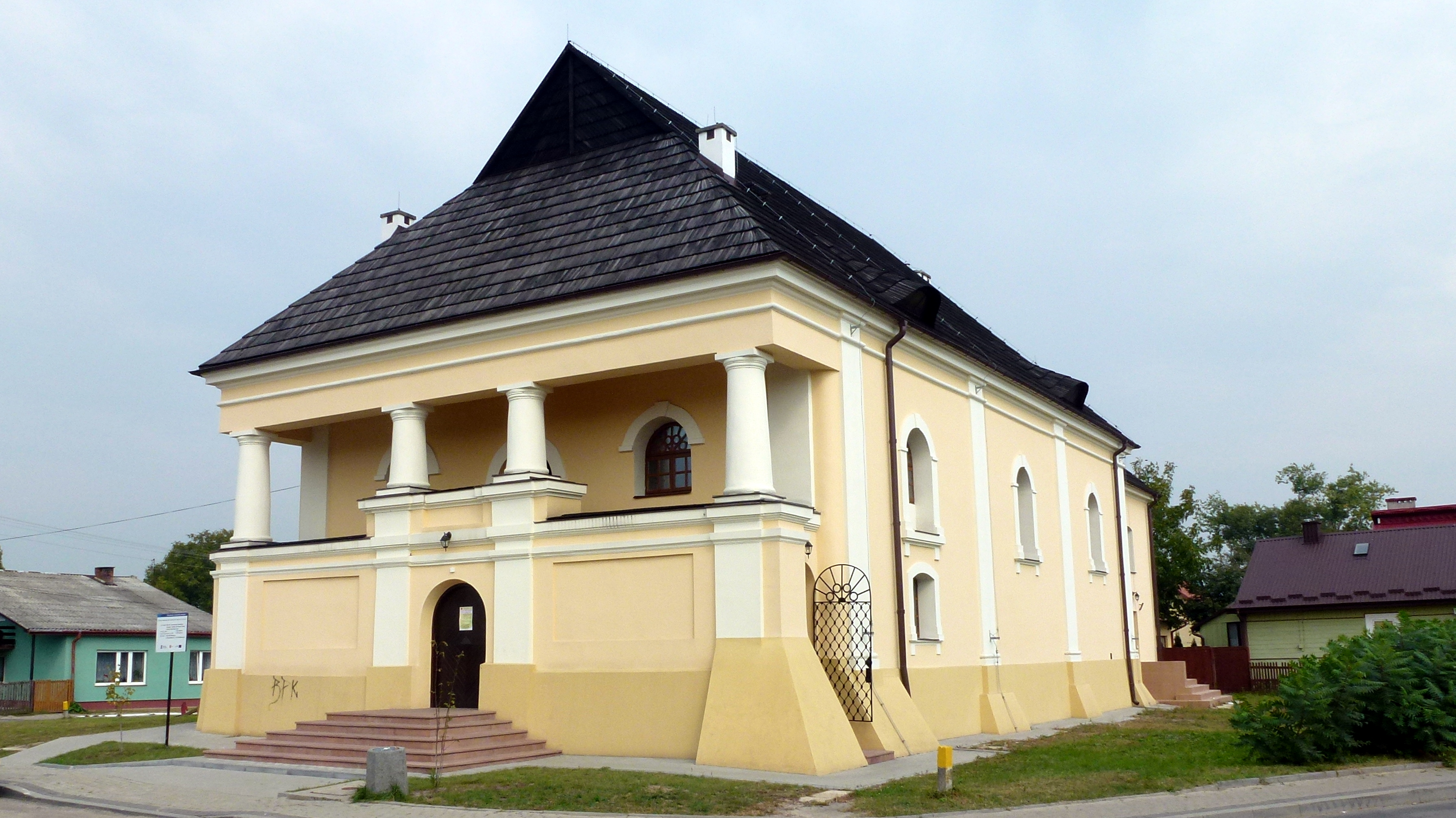 Synagogue in Modliborzyce, Poland